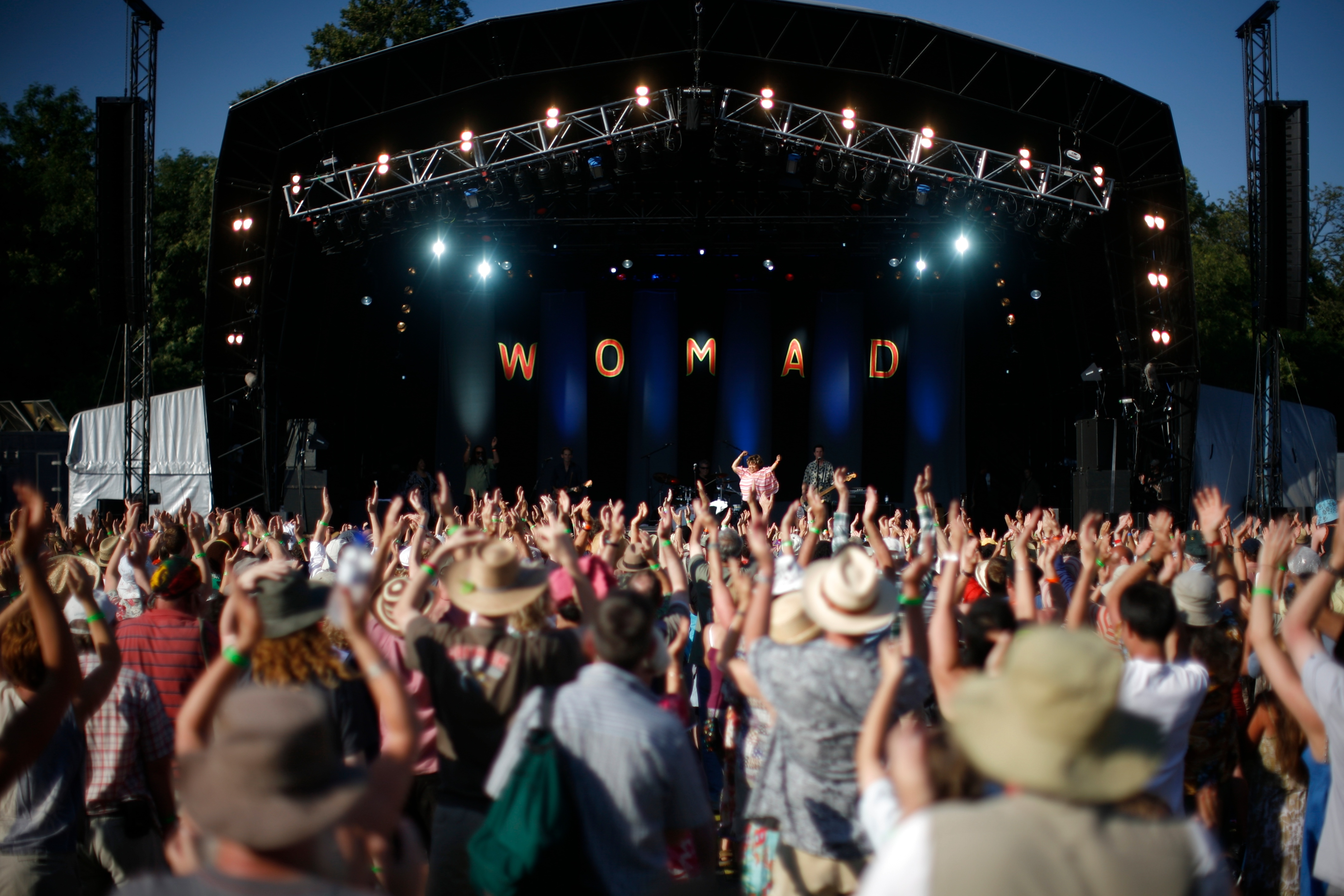 Audience enjoy dancing with a musician on the stage at WOMAD in the UK.